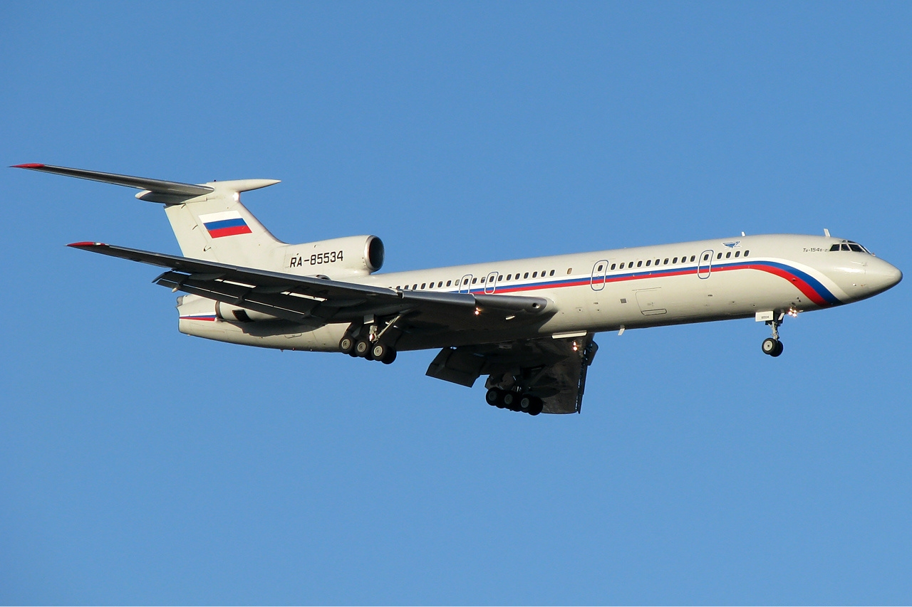 Russian Air Force Tupolev Tu-154B2. At Chkalovsky (CKL / UUMU).